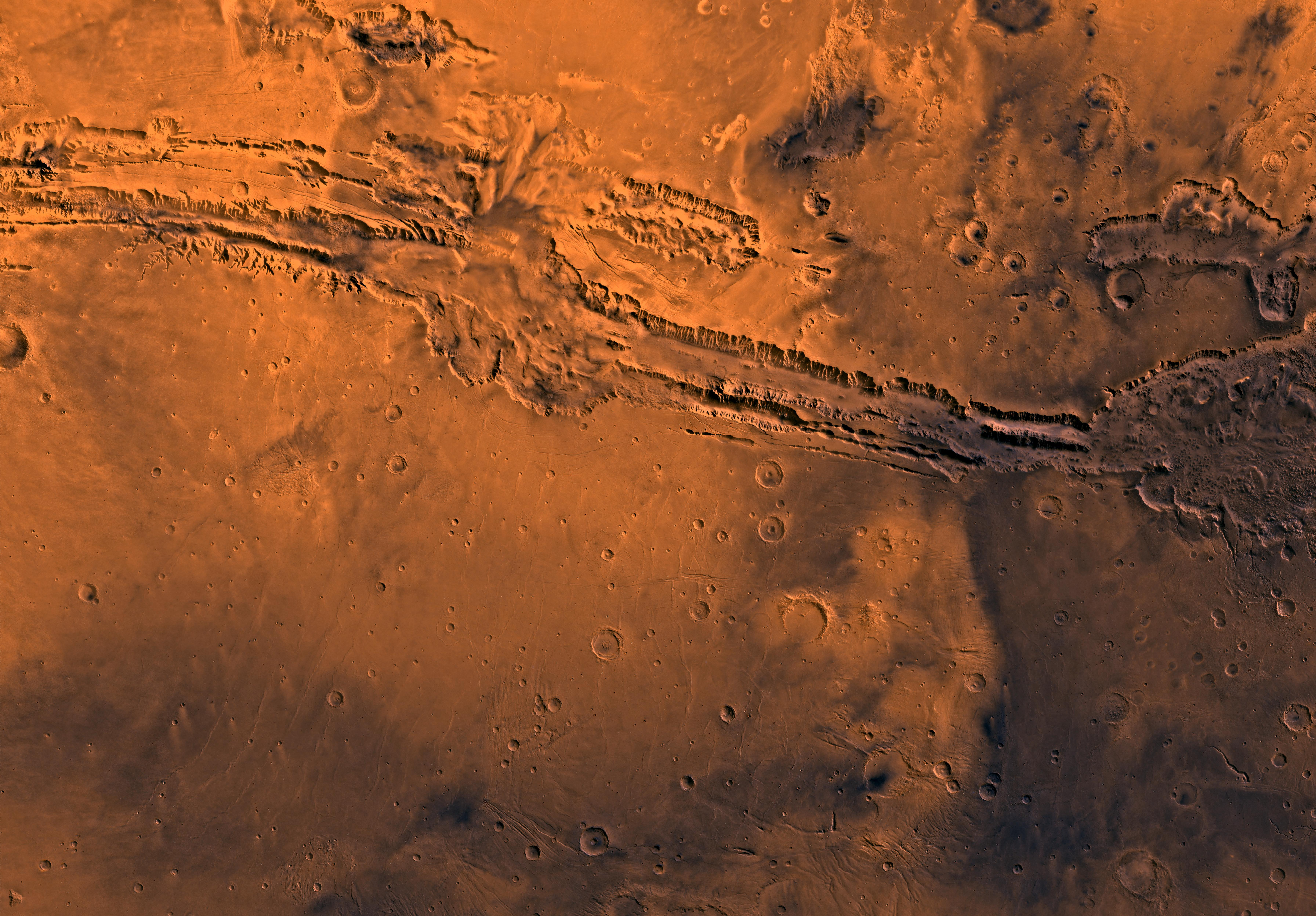 PIA00178: MC-18 Coprates Region Viking view of Valles Marineris Mars digital-image mosaic merged with color of the MC-18 quadrangle, Coprates region of Mars. Moderately cratered and faulted highland ridged plains in the northern and southern parts are cut by the prominent Valles Marineris chasma system, which reaches depths of 10 km and extends in an east-southeast direction for about 2,500 km across the quadrangle. The long, central canyons appear to be large, fault-bounded rifts, whereas some of the isolated, northern canyons are the sources of large outflow channels. Latitude range -30 to 0 degrees, longitude range 45 to 90 degrees.